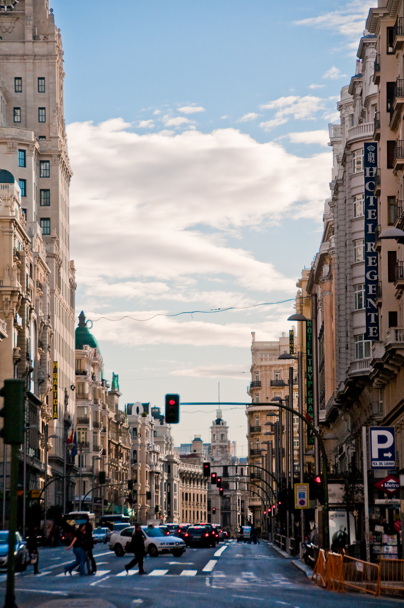 View of Gran Vía (a downtown avenue) in Madrid (Spain) from Plaza del Callao (square).